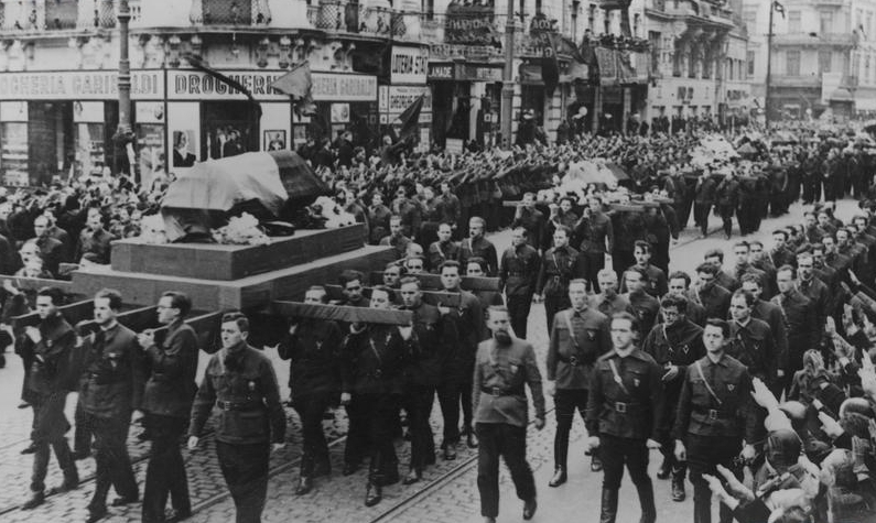 Funeral procession of coffins of Corneliu Codreanu and his companions, going through the streets of Bucharest.